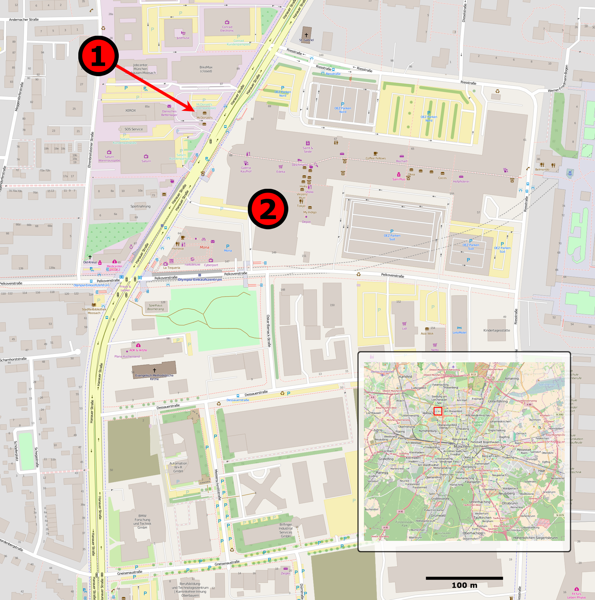 (1) McDonald's where the attack began (2) Olympia shopping mall